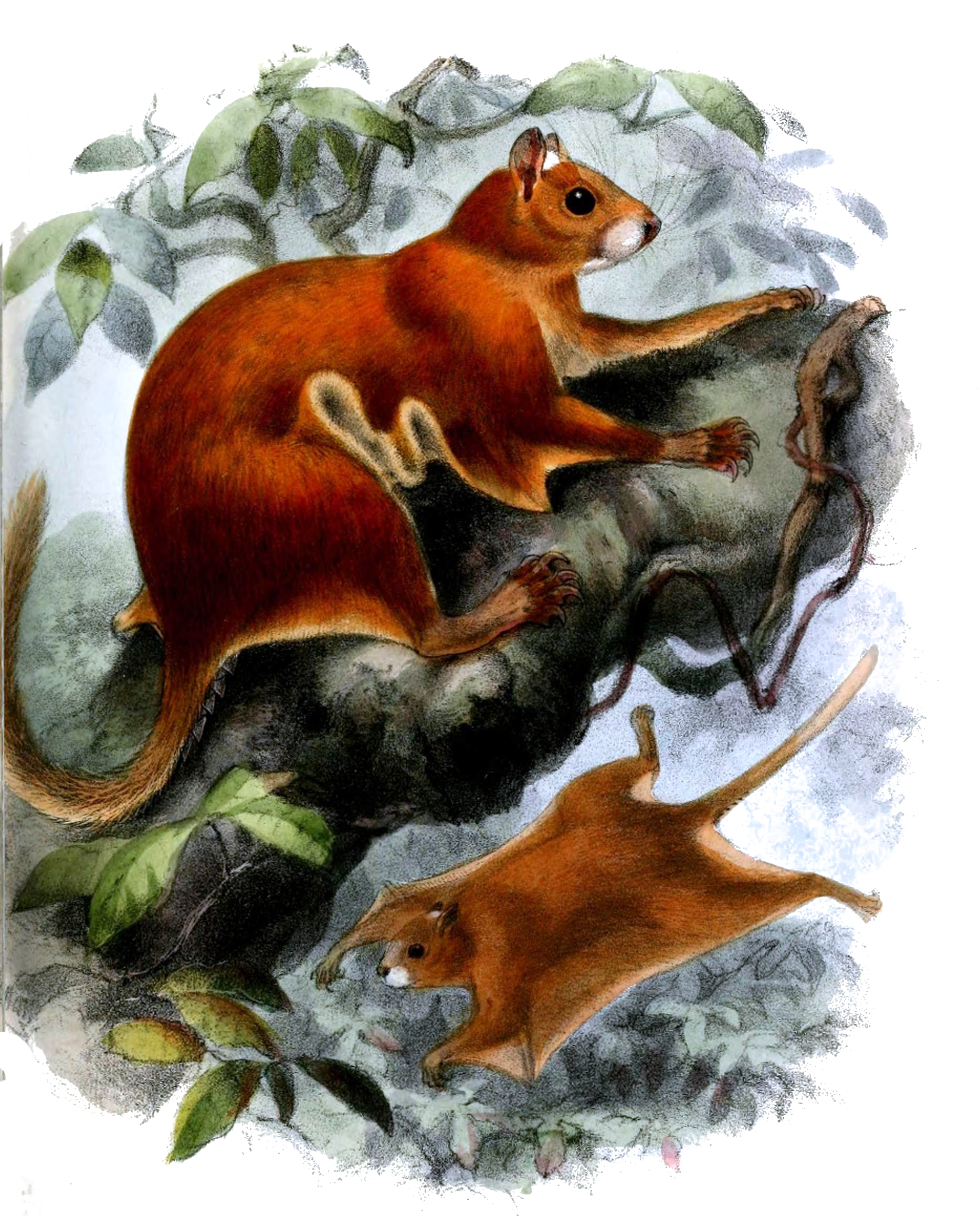 Anomalurus fulgens = Anomalurus beecrofti fulgens